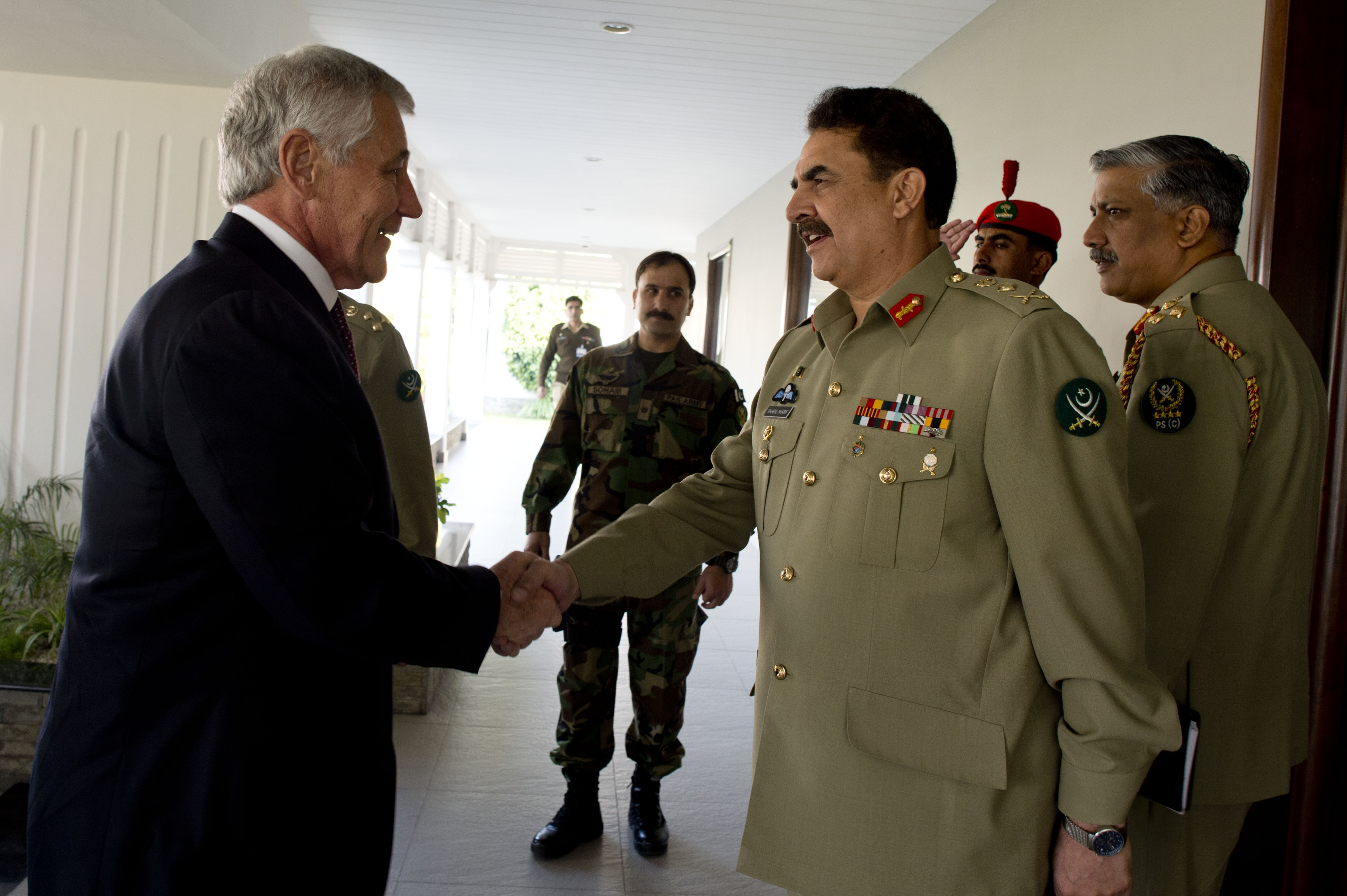 Secretary of Defense Chuck Hagel greets Chief of Army Staff General Rahaeel Sharif in Islamabad, Pakistan on December 9, 2013. Hagel met with various Pakistani leaders as the first Secretary of Defense since Robert Gates to visit the country and discuss issues of mutual importance. Photo by Erin A. Kirk-Cuomo (Released)